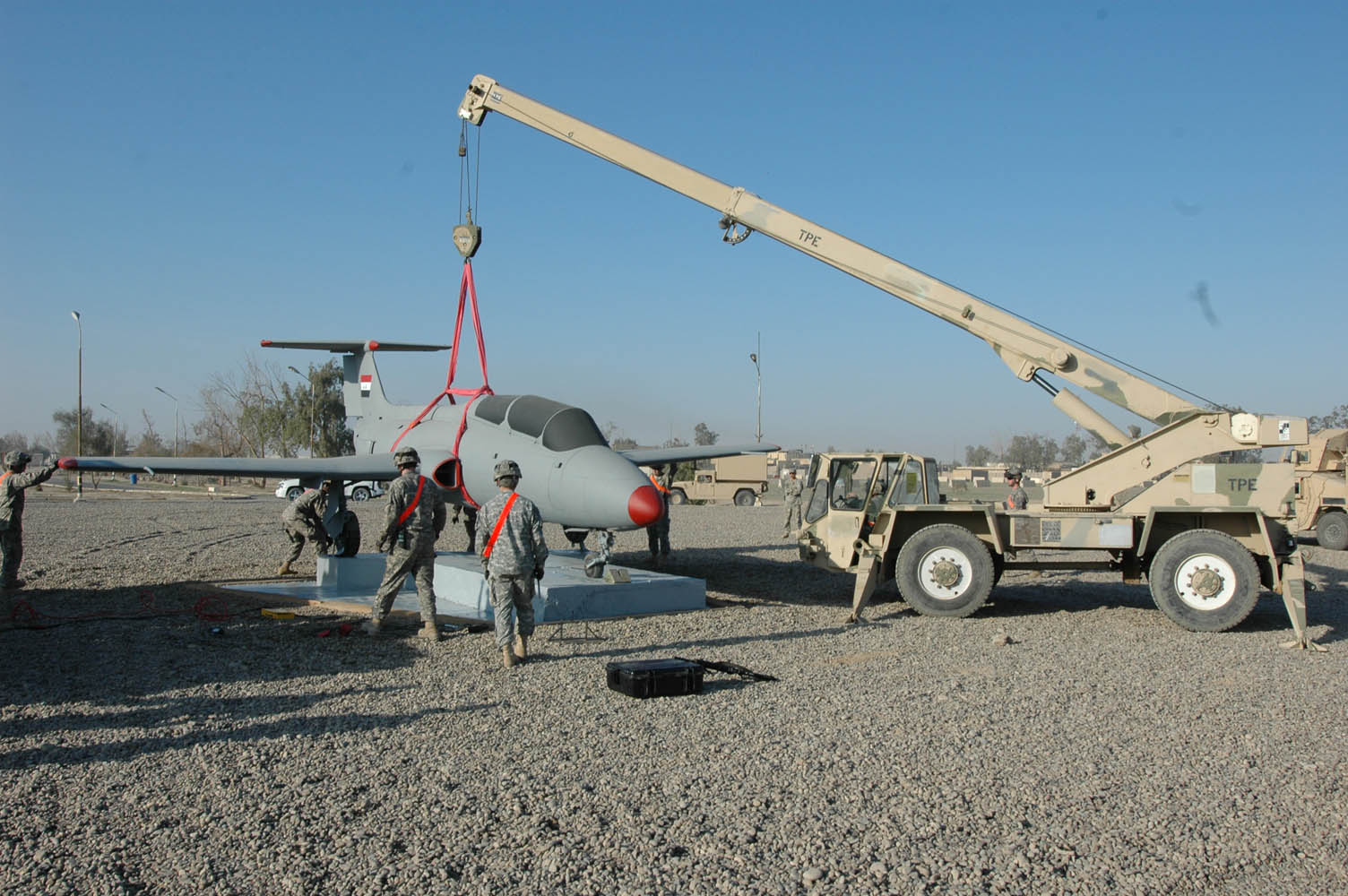 Soldiers of Company B, 209th Aviation Support Battalion, 25th Combat Aviation Brigade, Task Force Lobos, place a restored L-29 Delfin airplane at its final destination as a static display at Contingency Operating Base Speicher, outside of Tikrit, Iraq, Dec. 16. See more at